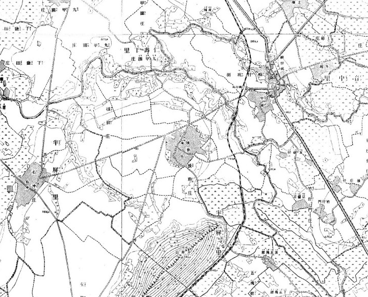 Houjin (Taiwan Baotu)